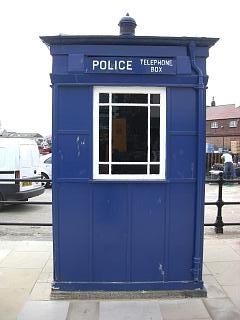 Police telephone box on the seafront at Scarborough, N. Yorkshire - taken by me Zir 22:29, 19 July 2007 (UTC) Please credit © if used outside of Wikipedia